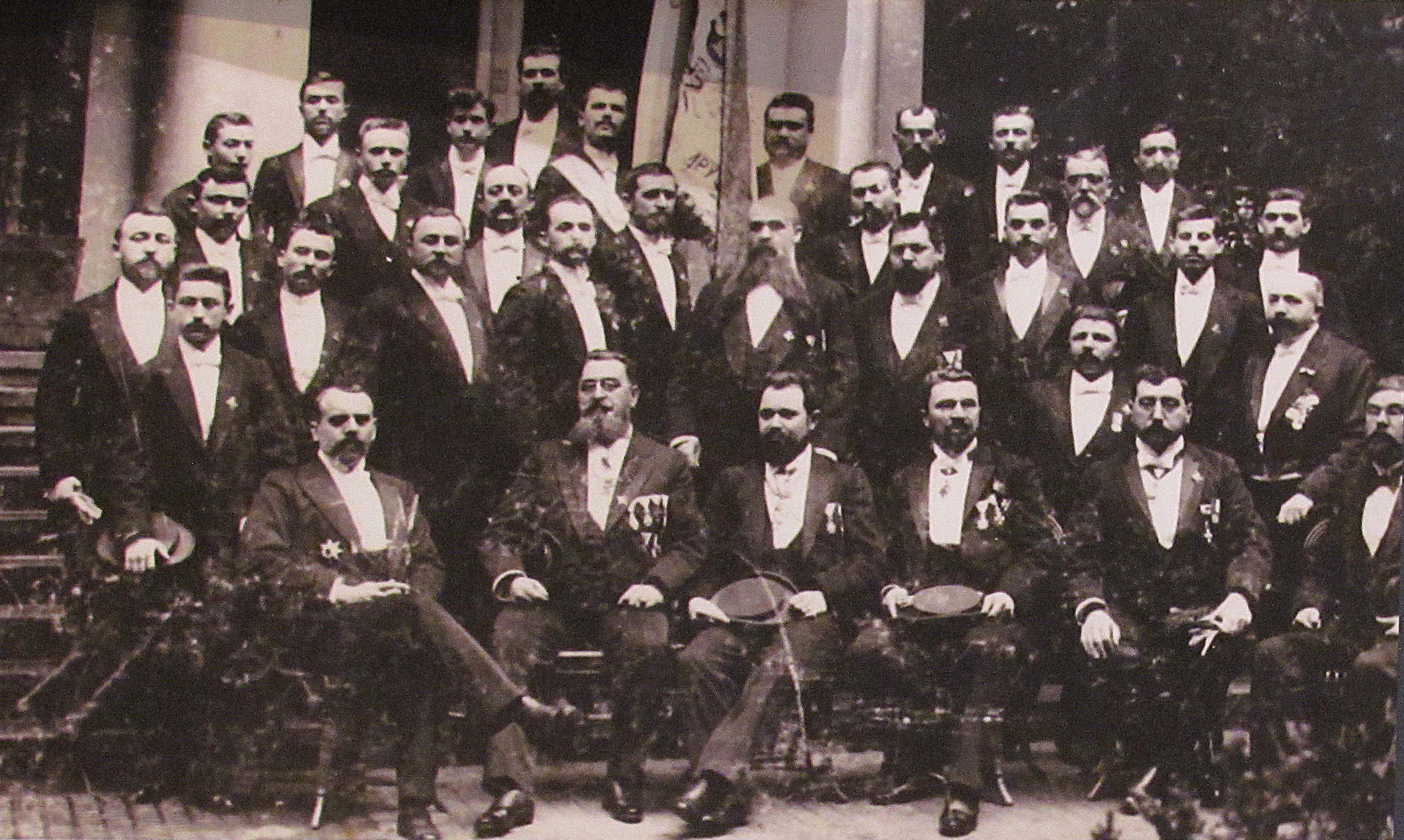 Choir Beogradsko pevacko drustvo, Belgrade, 1904